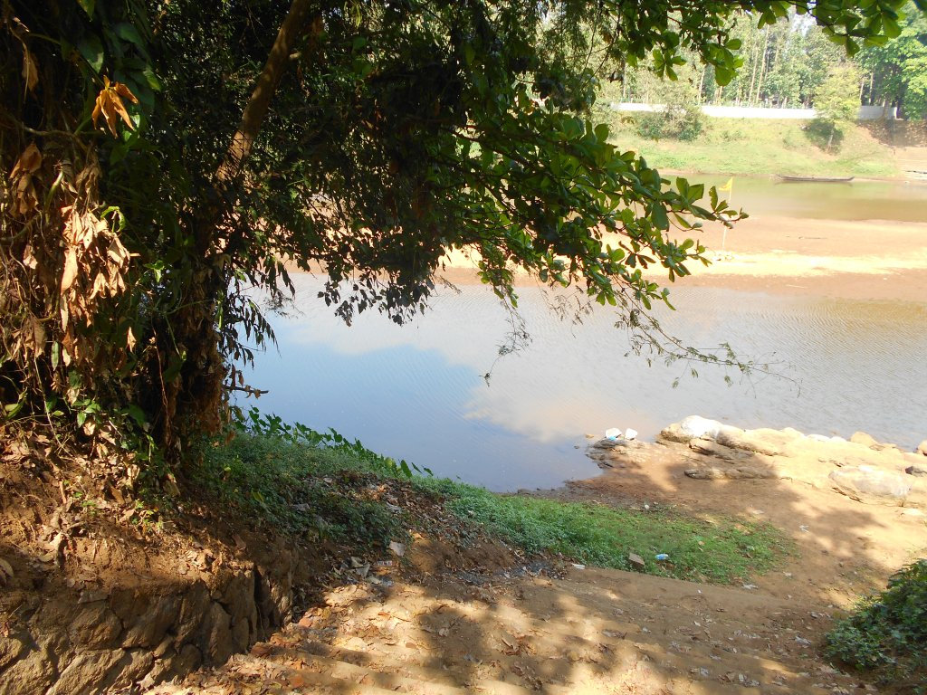 pampa river is in South Kerala in Southern India